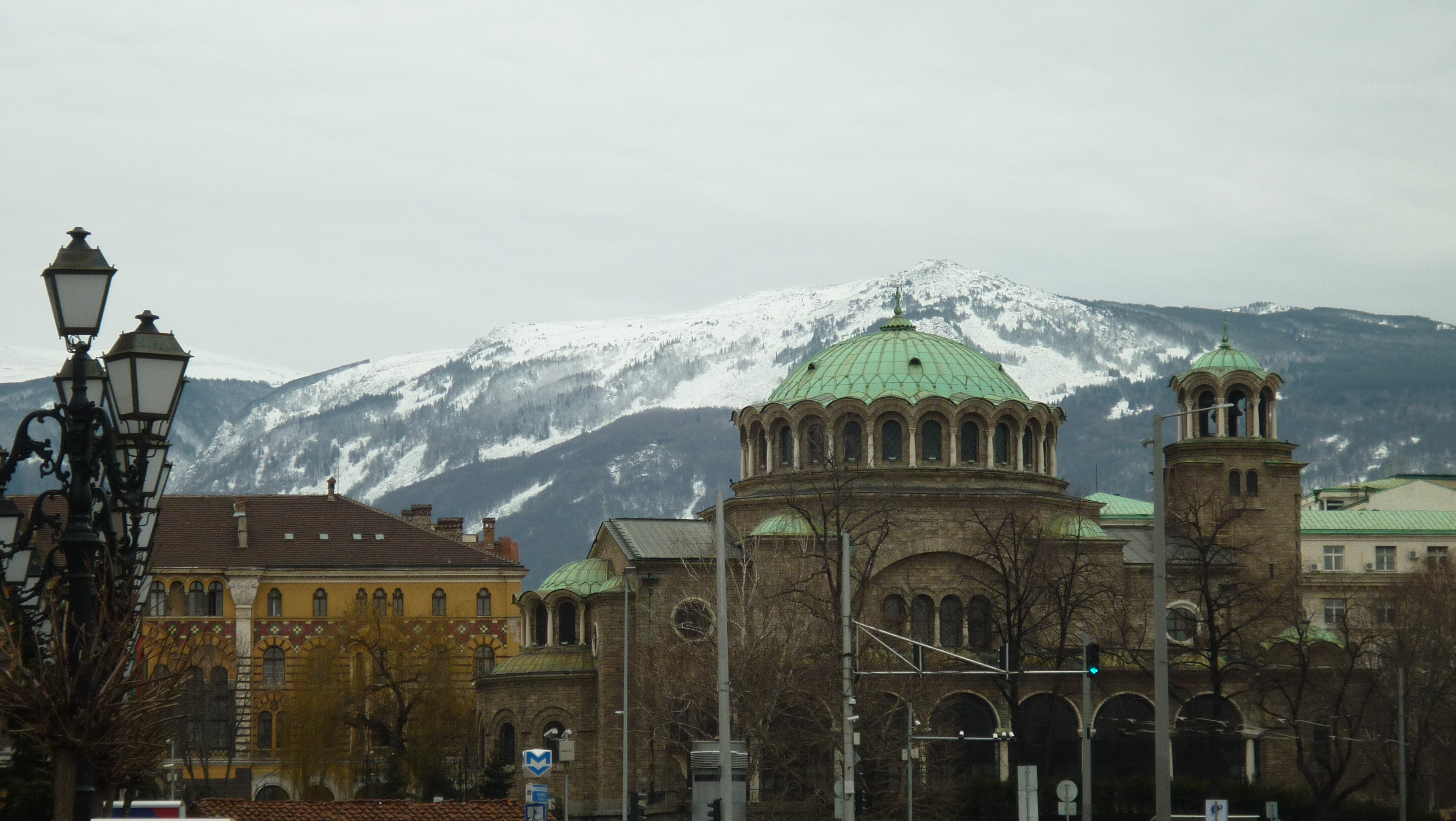 Photo of Vitosha Mountain and Sveta Nedelya Church in Sofia, January 2015